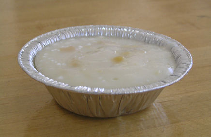 A Split pea pudding, a common dessert from Hong Kong and Canton.